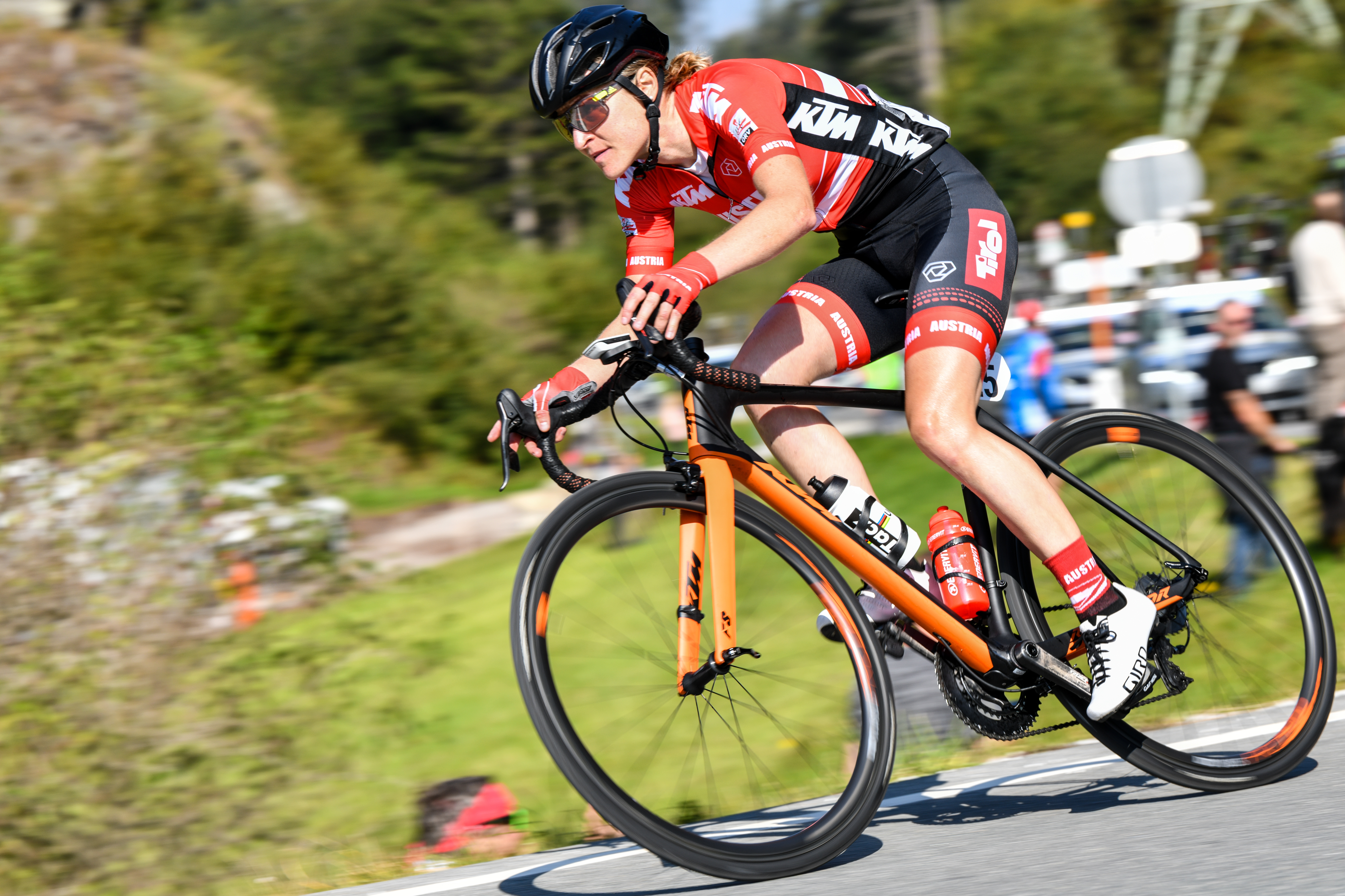 2018 UCI Road World Championships Innsbruck/Tirol Women Elite Road Race. Picture shows: Angelika Tazreiter of Austria